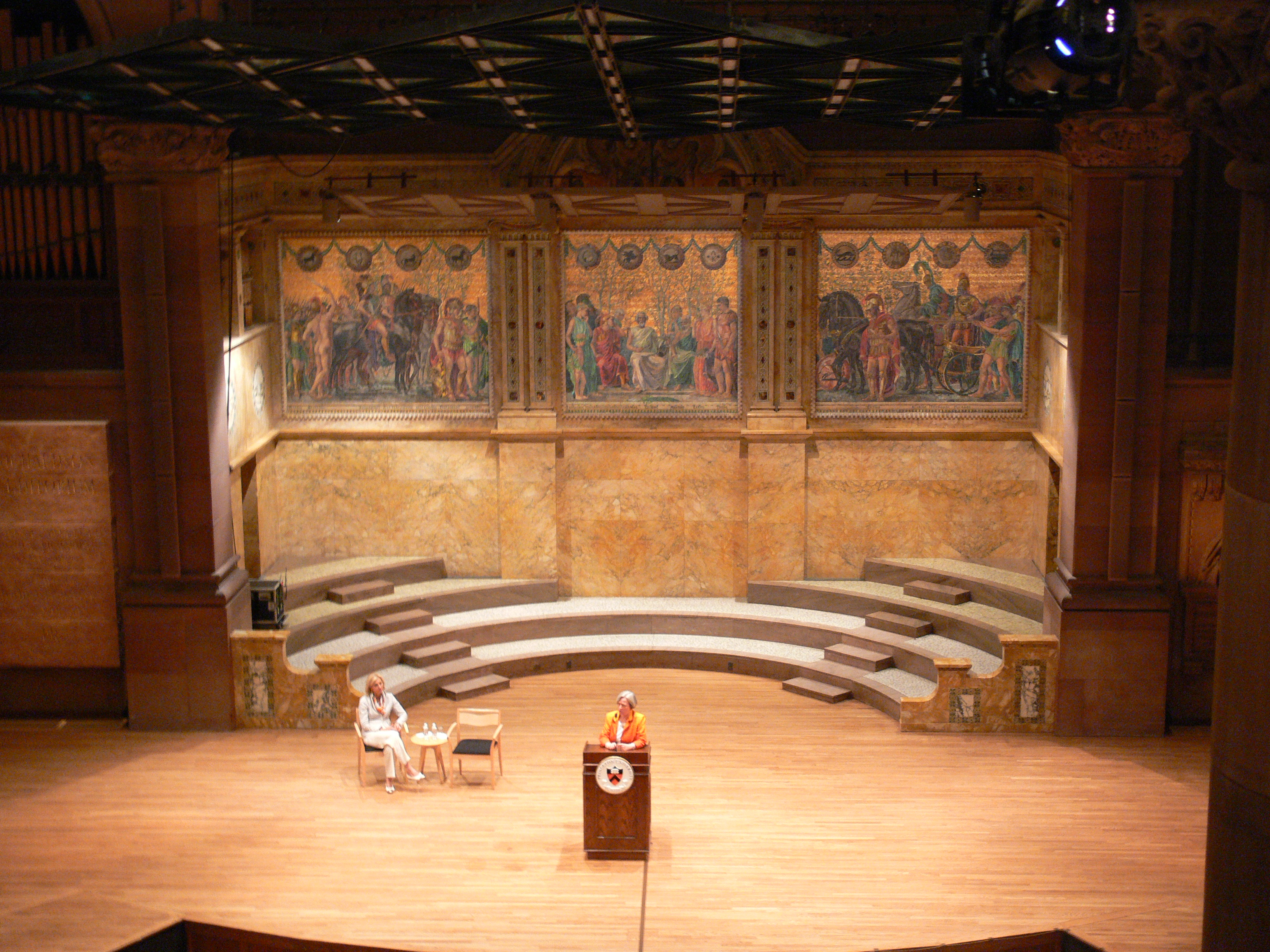 Stage of Alexander Hall (during a speech by University President Shirley M. Tilghman at Princeton Reunions 2007) Princeton University, Princeton, New Jersey